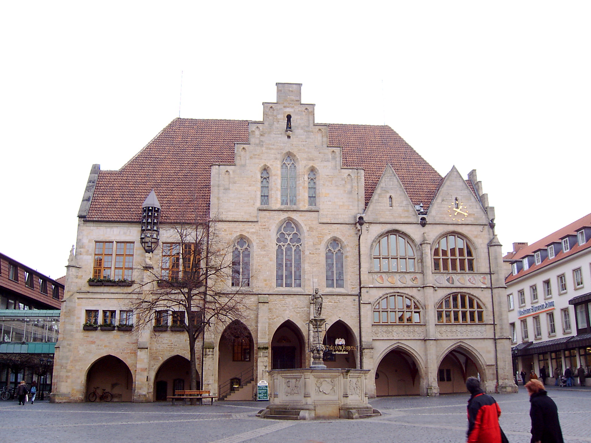 Rathaus / Town hall in Hildesheim